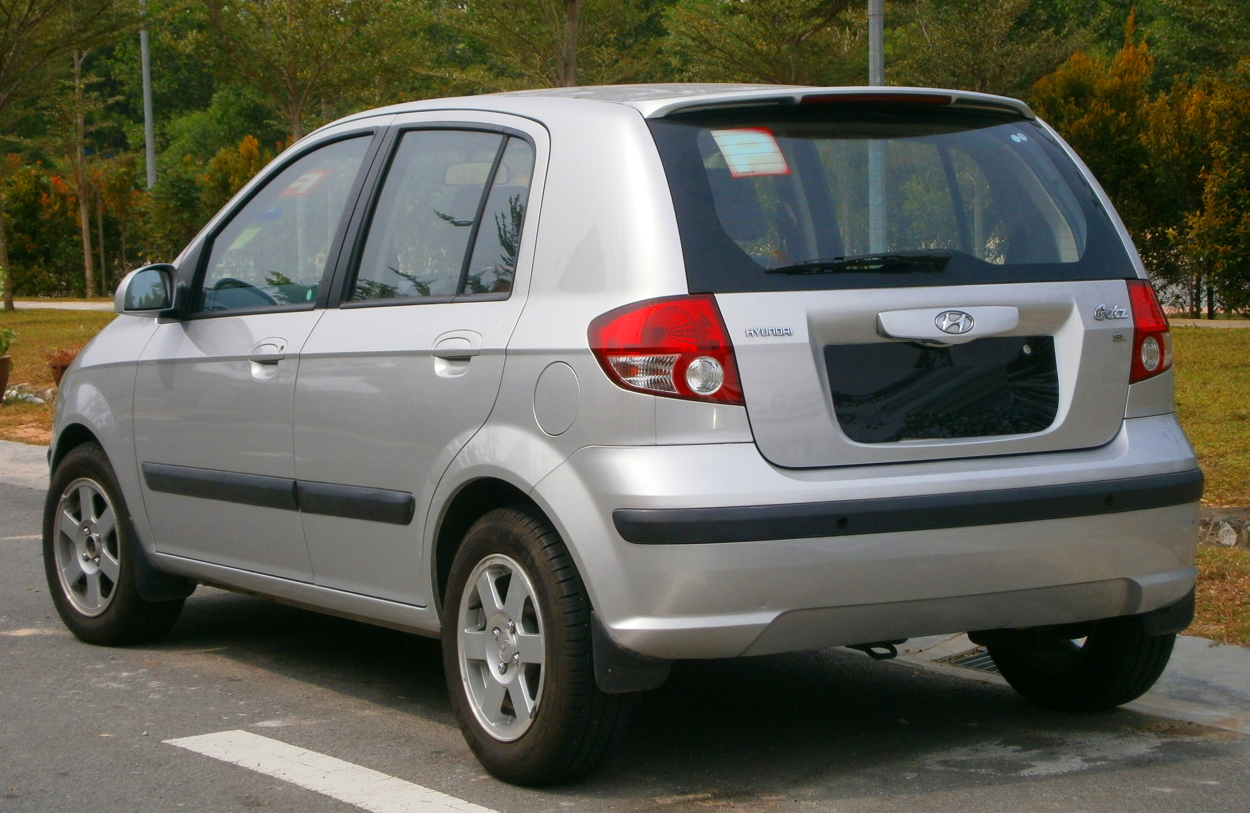 2004 Hyundai Getz GL 5-door hatchback in Puchong, Malaysia. Designed in Germany & South Korea + , Assembled in Malaysia